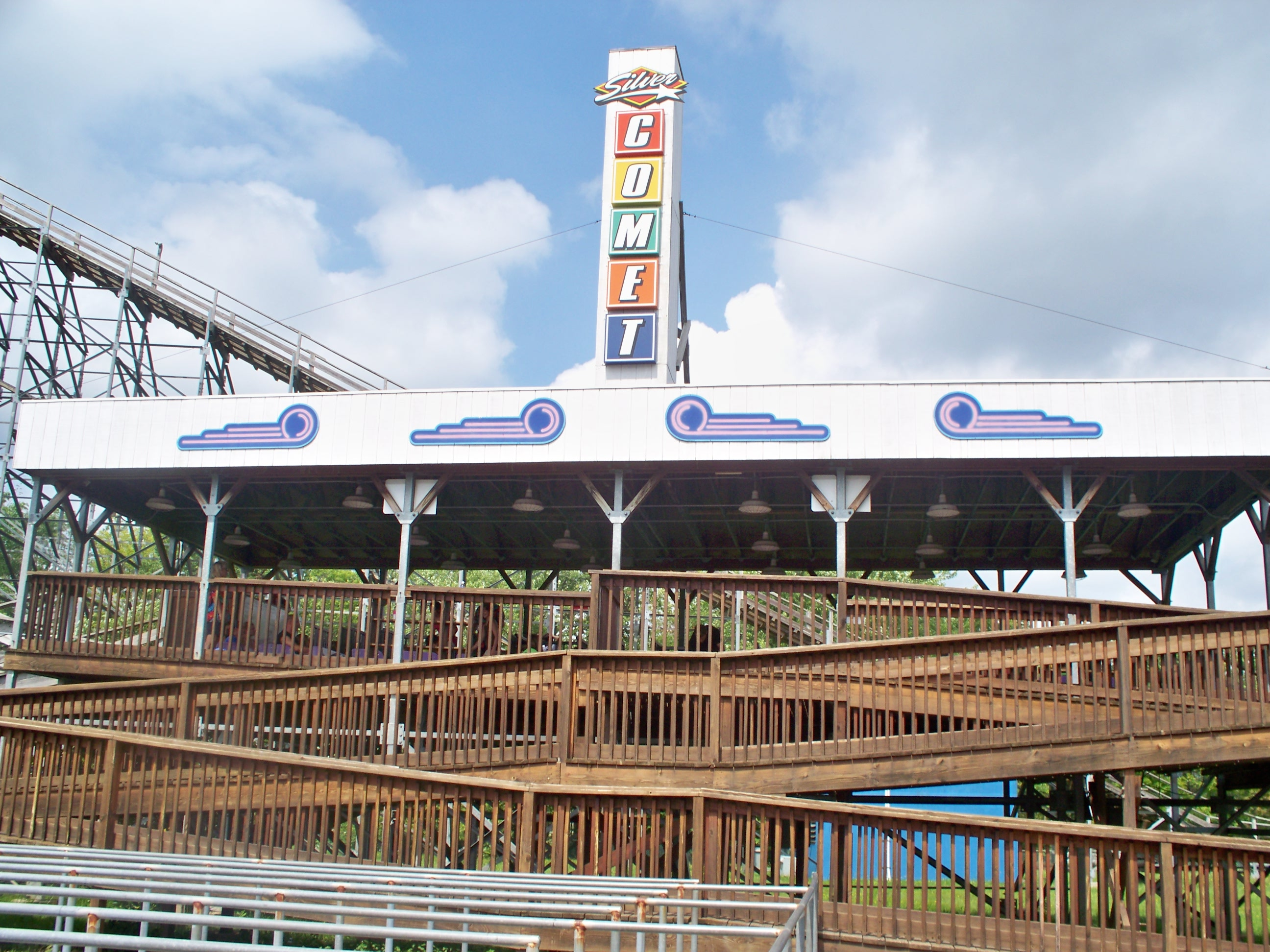 this is the station of the silver comet